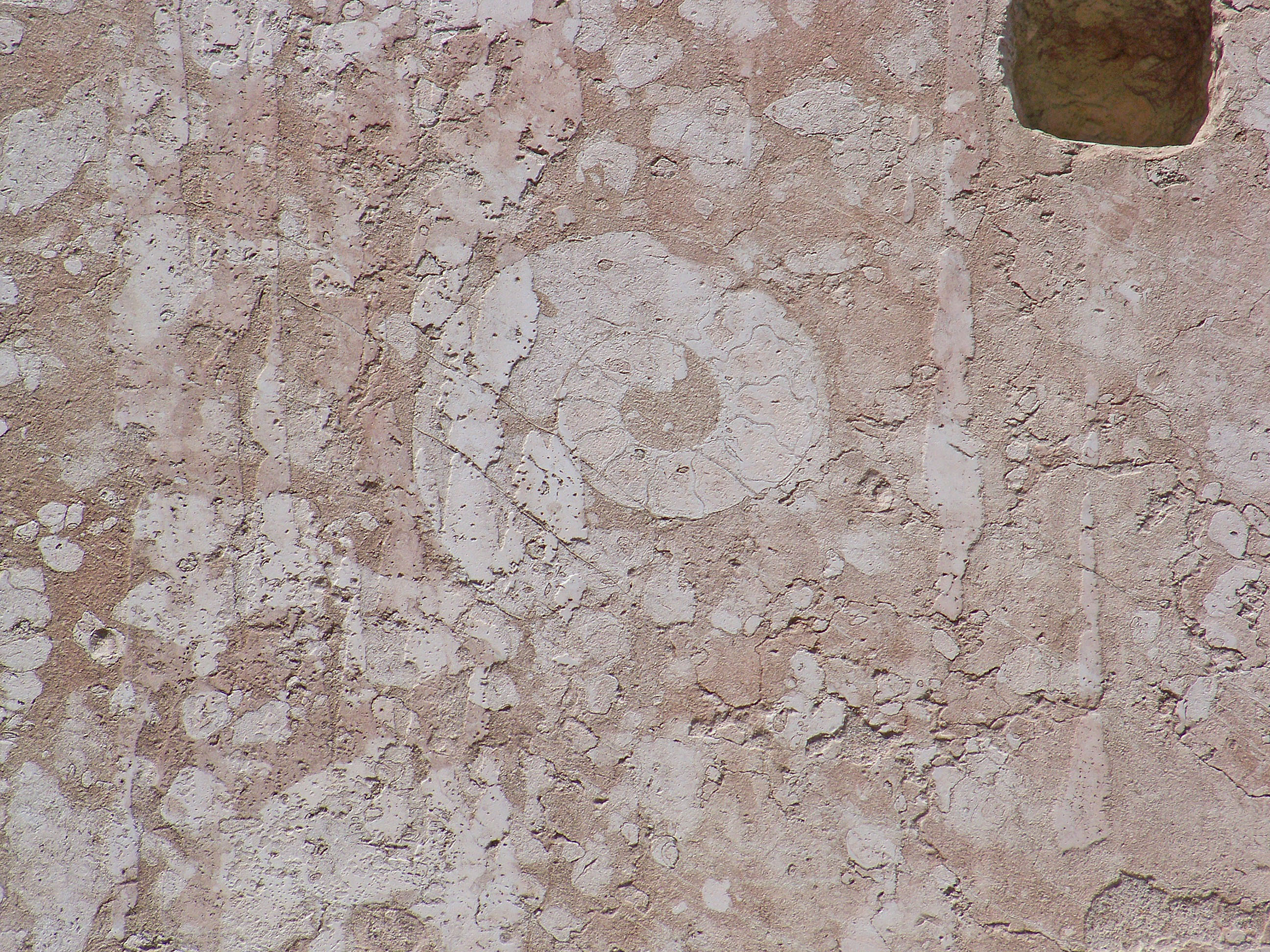 Detail of a cover plate of the Baptistery of Parma (Italy) in red Ammonitico of Verona stone, including fossil ammonite